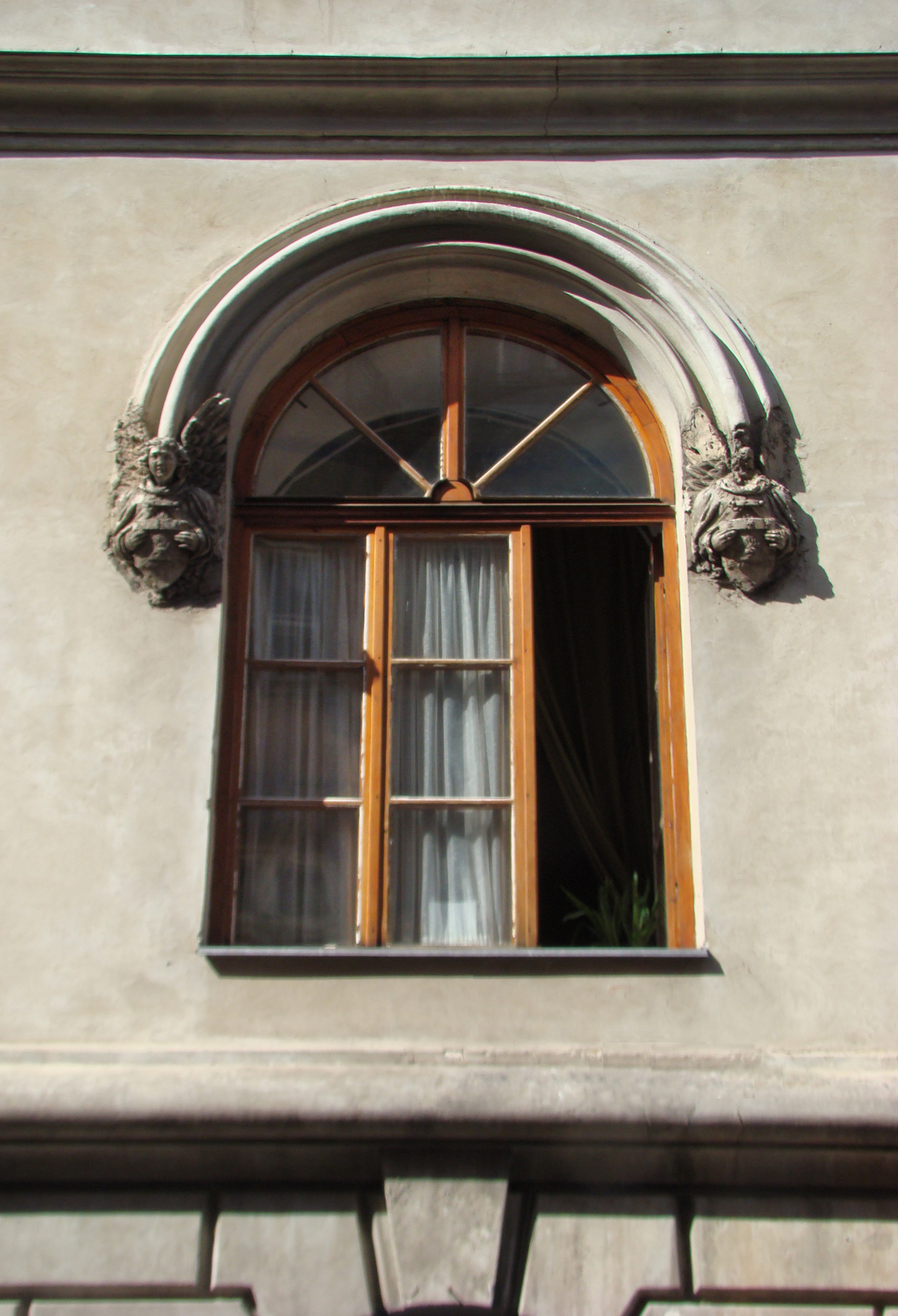 26, Bednarska St.